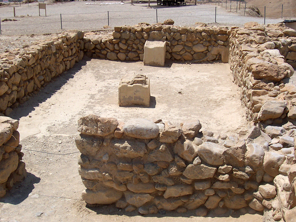 Room at Qumran where more than 1000 ceramic items were found